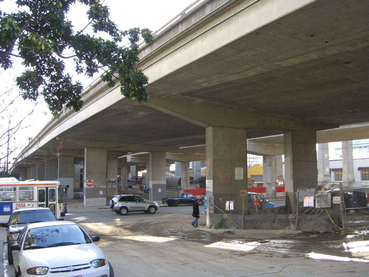 This is the bridge that carries I-80 over 3rd Street in San Francisco.